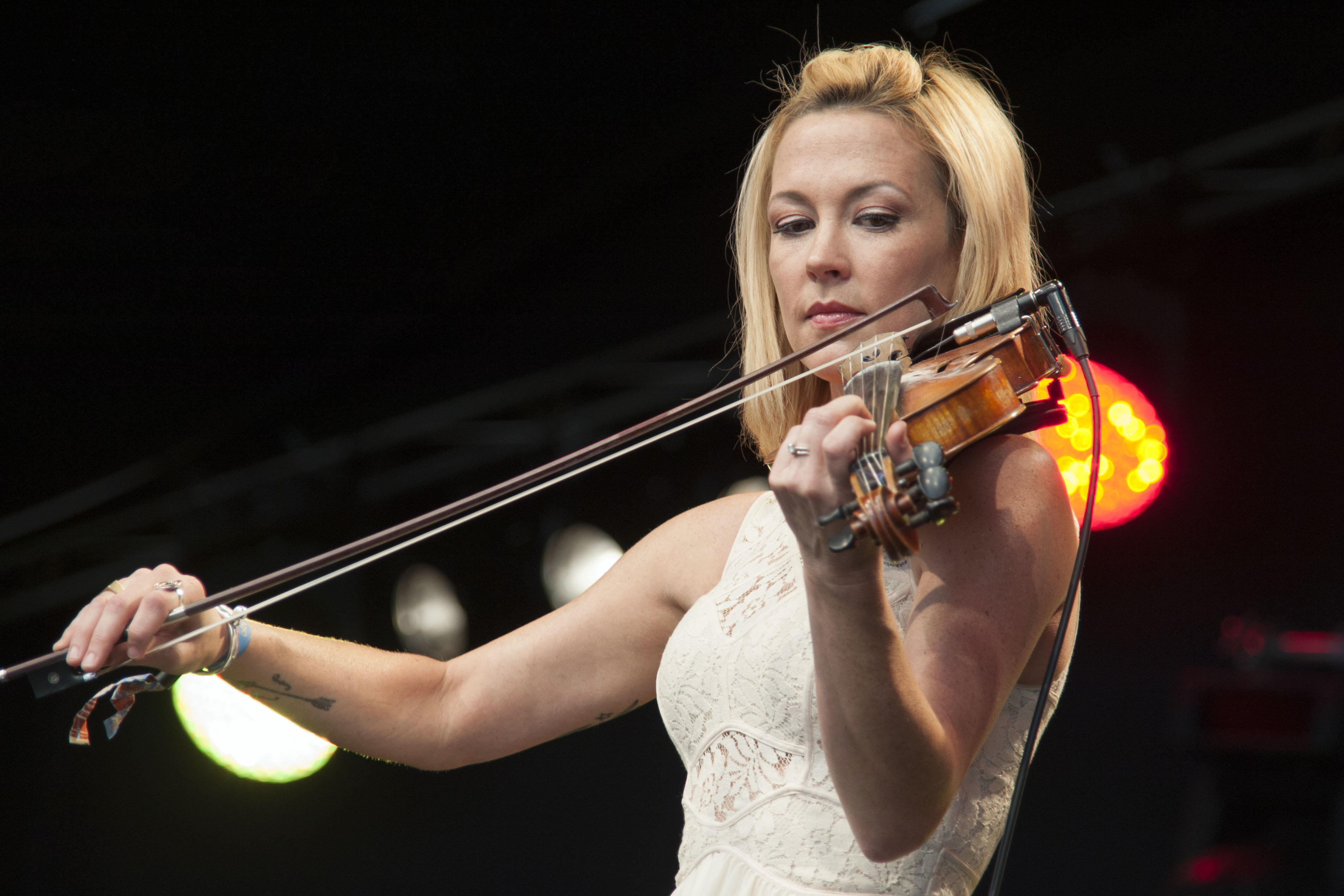 Amanda Shires at Cambridge Folk Festival 50th Anniversary.